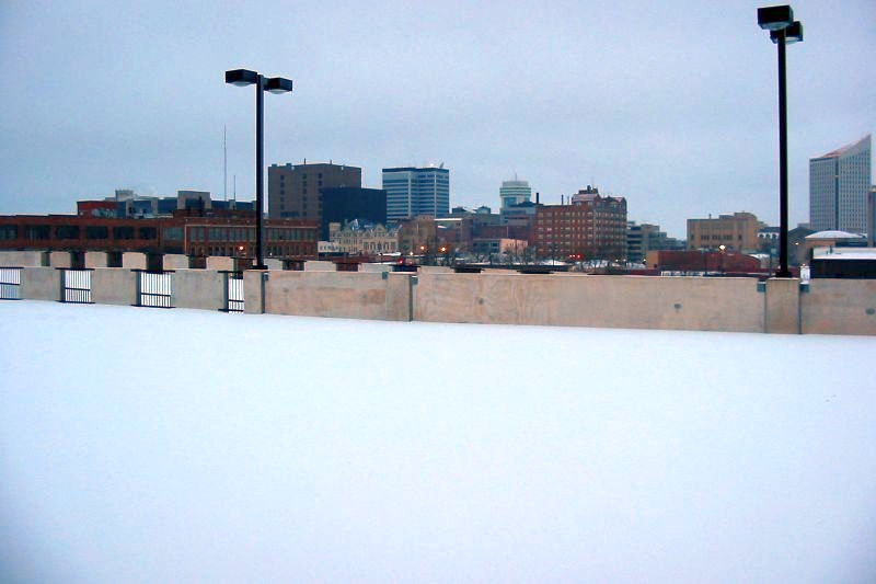 Wichita, Kansas Skyline during the winter snow